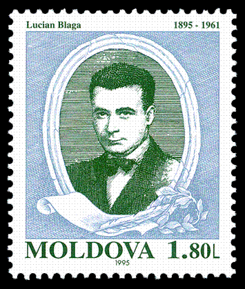 Lucian Blaga (1895-1961). Philosopher and poet